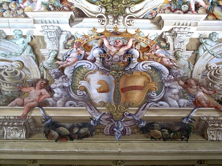 Villa Tiepolo Passi frescoes